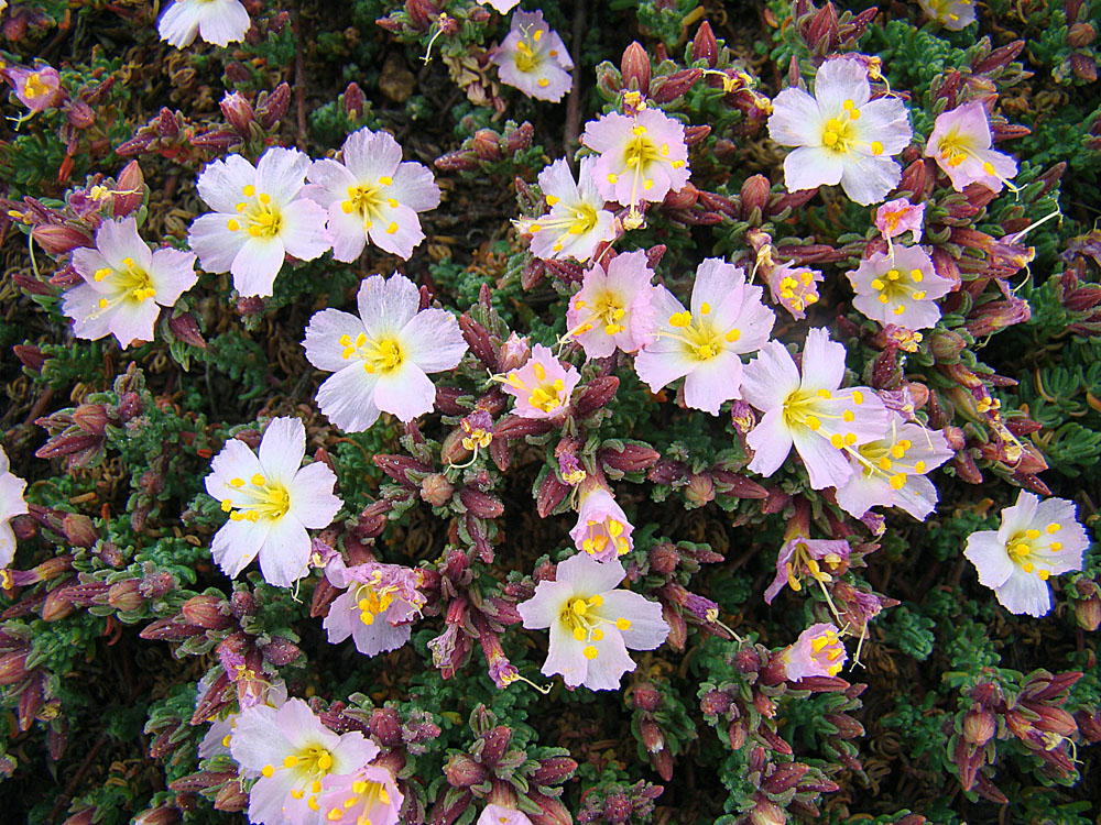 Known as Hierba del Salitre in northern Chile and southern Peru. In context at